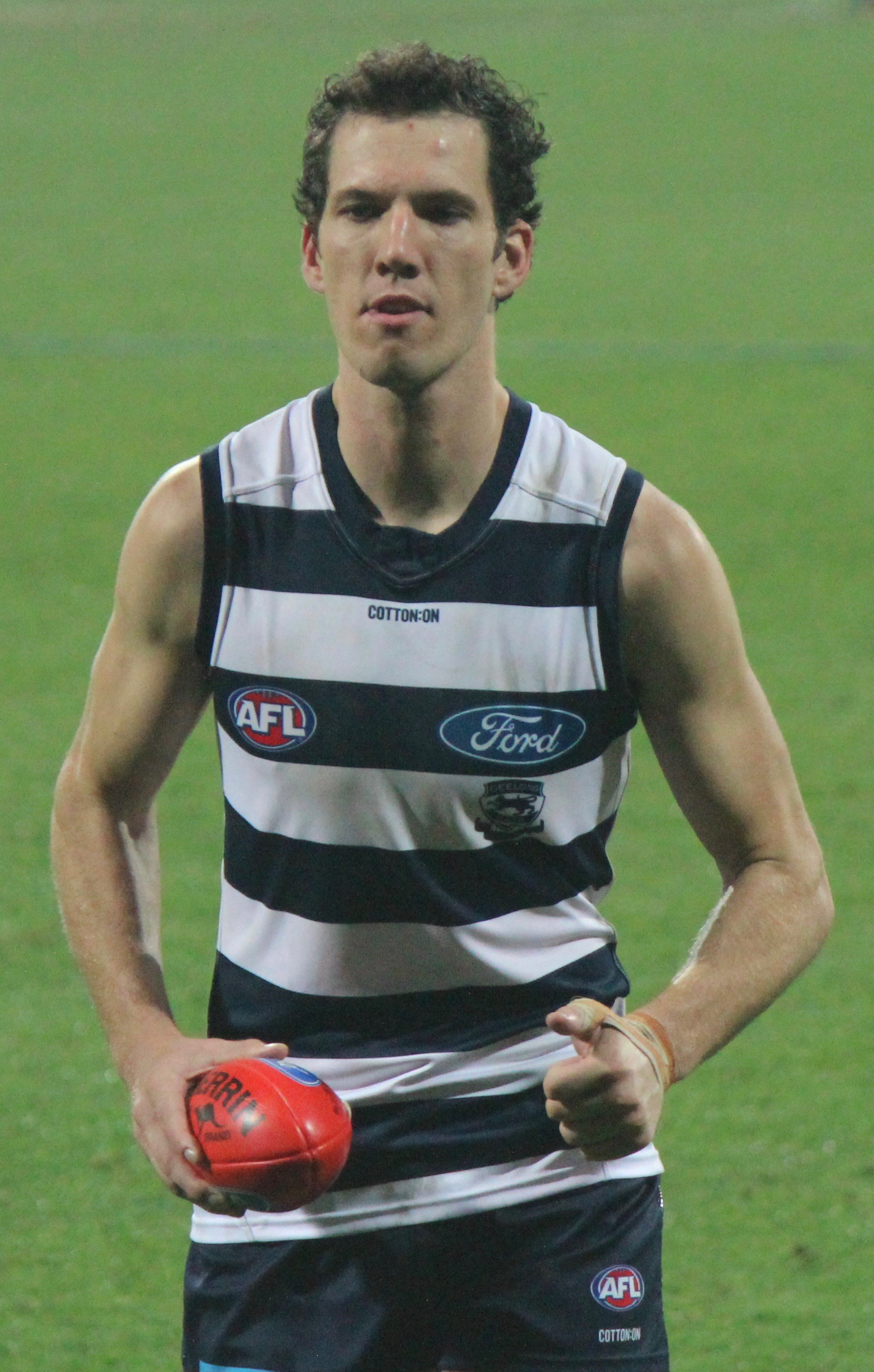 Darcy Fort with Geelong during a match against Western Bulldogs at Kardinia Park in round 9 of the 2019 AFL season.